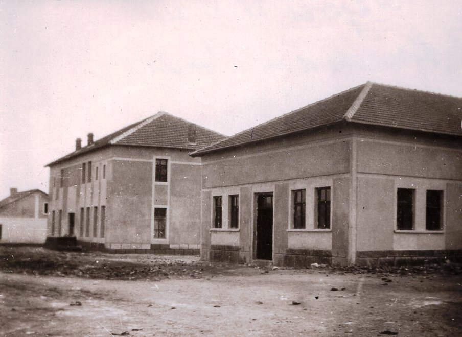 School in Negorci, photo from 1931 This media file is produced by Wikipedian in Residence in Category:Wikipedian in Residence at DARM in 2016.